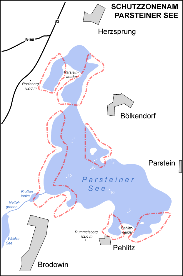 Map of the protection zones of the Parsteiner See, Germany